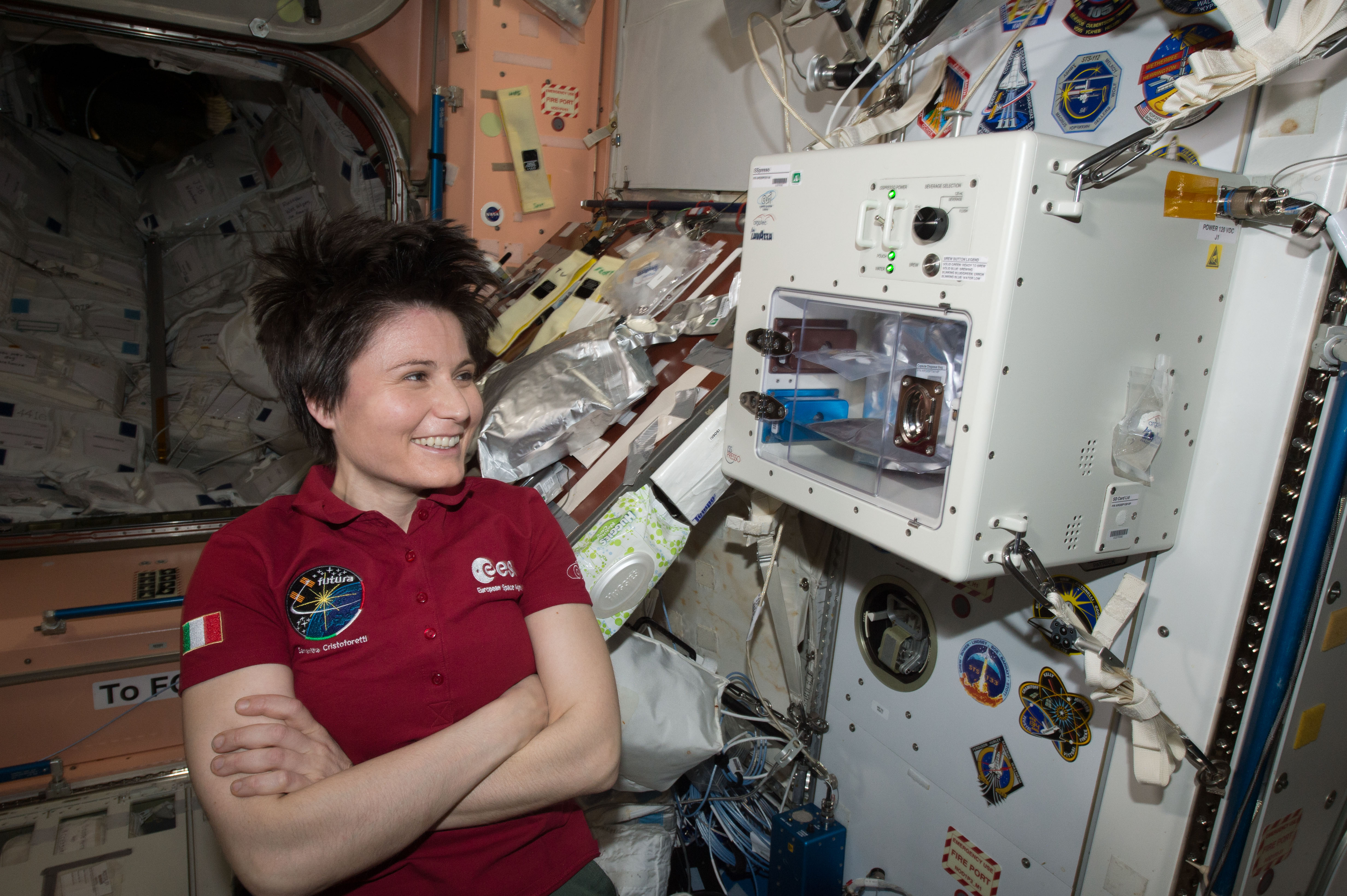 ESA (European Space Agency) astronaut Samantha Cristoforetti waits next to the newly installed ISSpresso machine. The espresso device allows crews to make tea, coffee, broth, or other hot beverages they might enjoy.